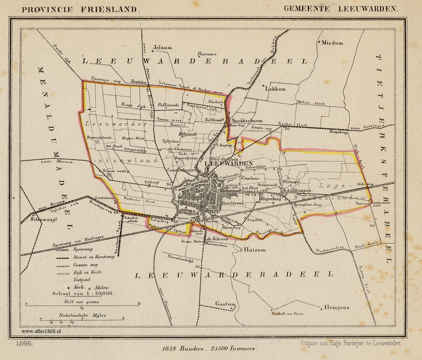 Map from 1866 of the municipality of Leeuwarden (Province of Friesland, Netherlands).